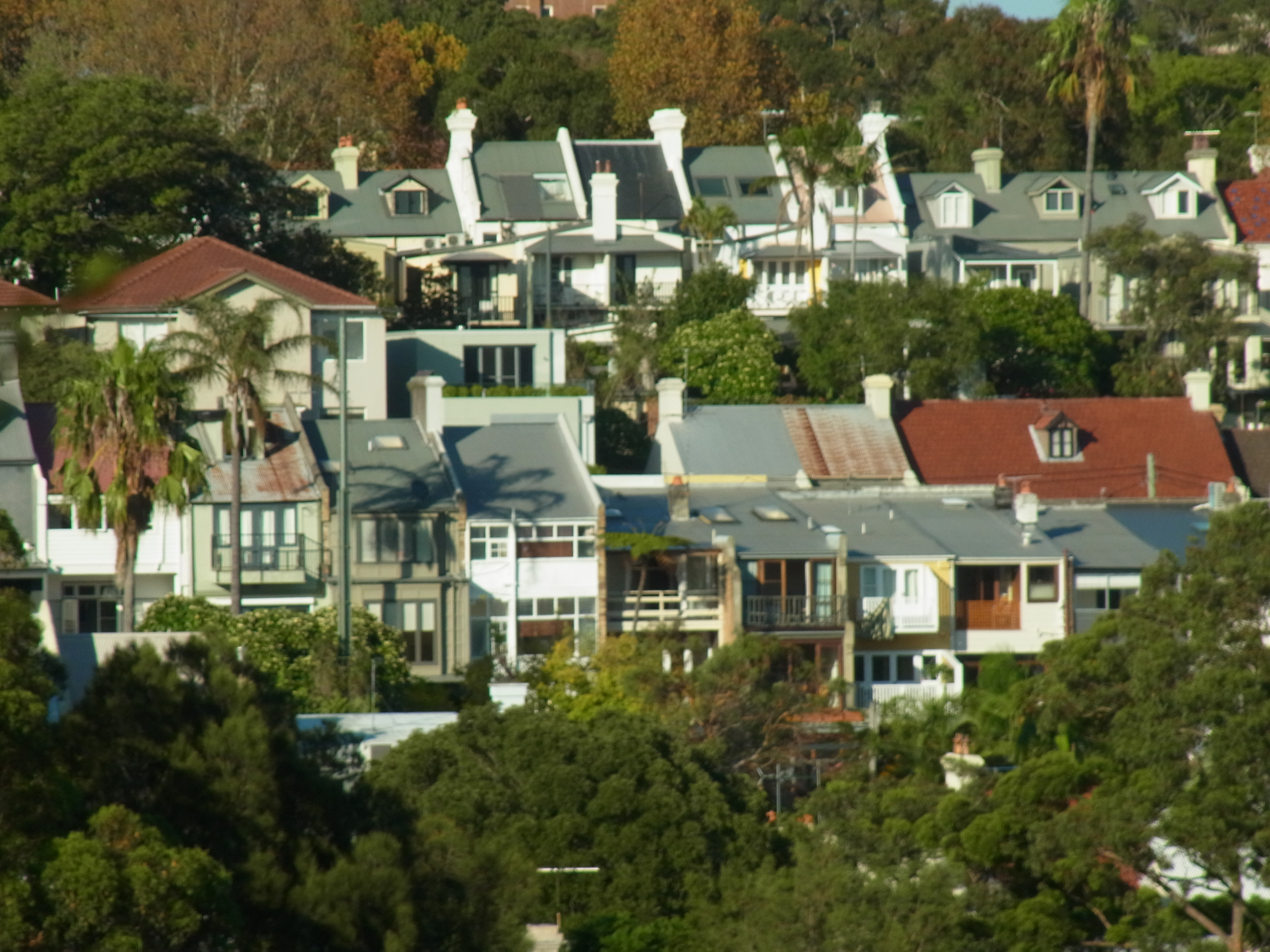 View of Paddington houses from top of Trumper Park